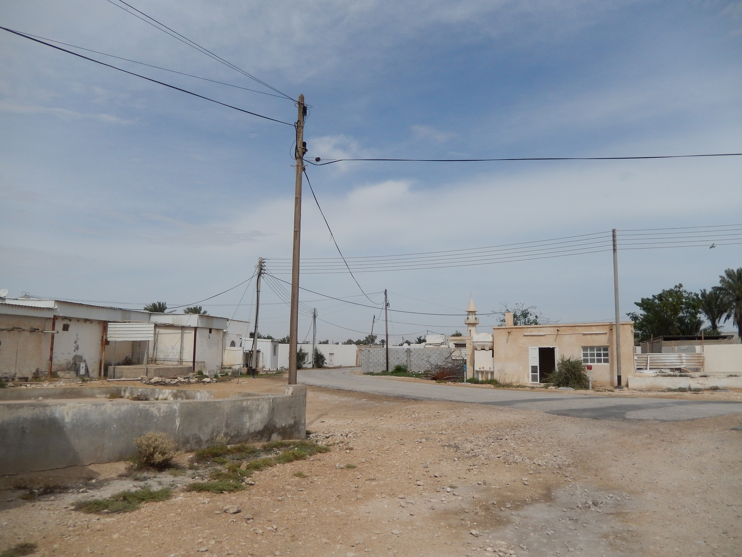 Scene in Al Utouriya, a village 42 km to the northwest of Doha (in the municipality of Al Rayyan, Qatar). (There are many different ways of spelling Al Utouriya; one also encounters Al `Aţūrīyah, Al Athārīyah, A-uriyah (on Google Maps) or Al Otouriyah.)